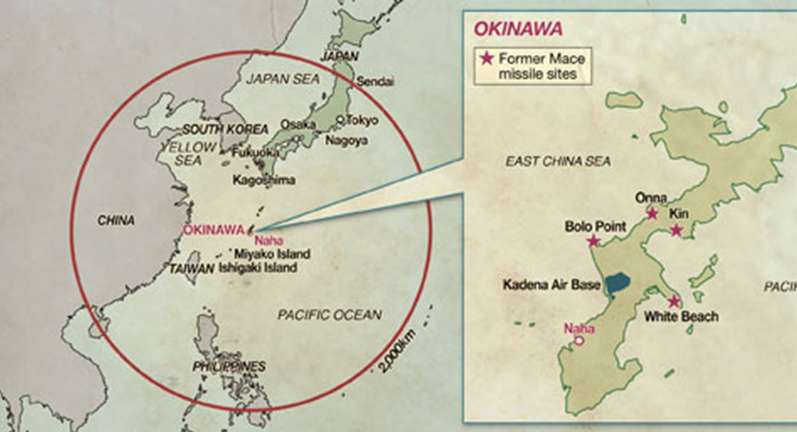 Former Mace missile sites, Japan